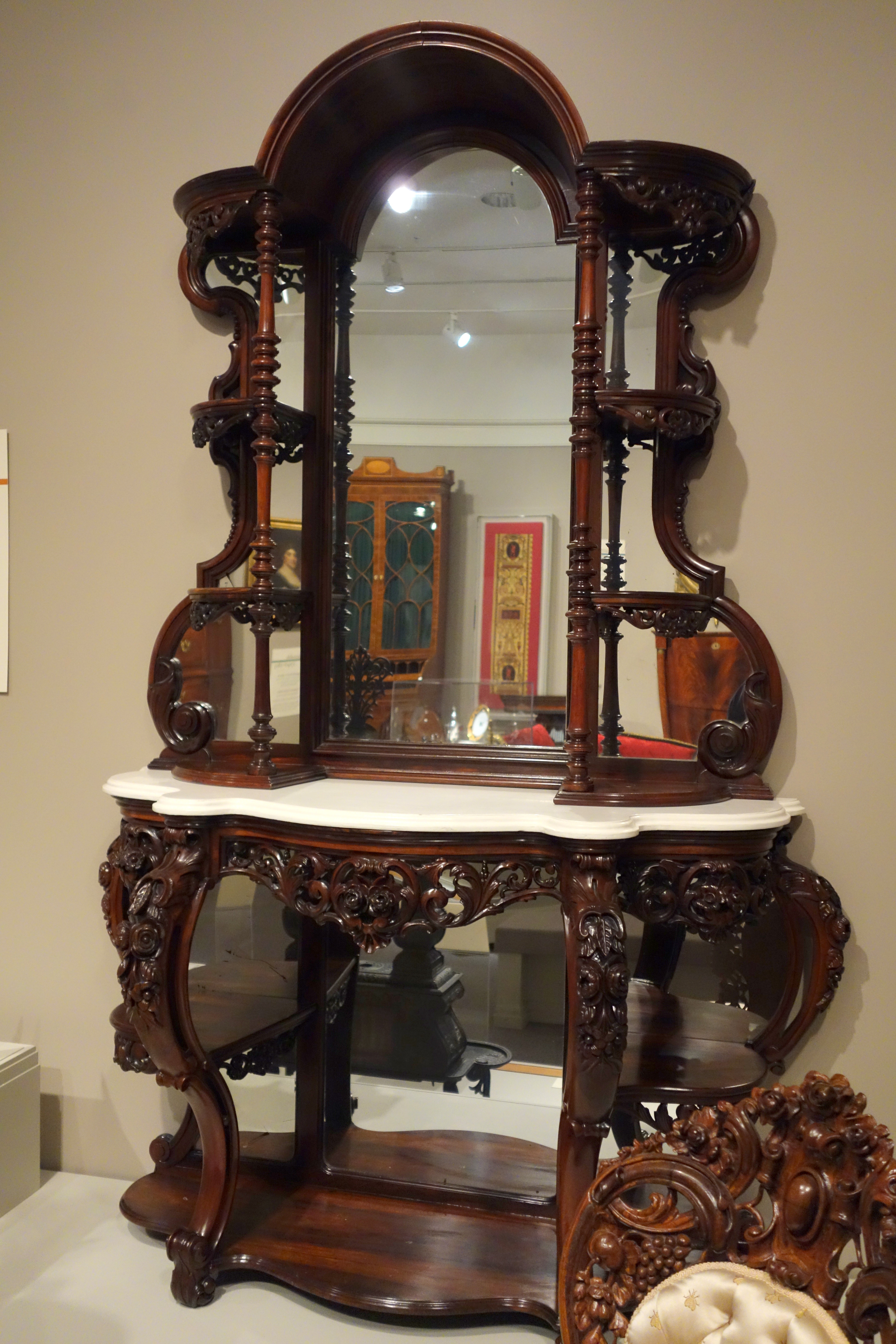 Exhibit in the Winterthur Museum, New Castle County, Delaware, USA. This work is in the public domain because the artist died more than 70 years ago.